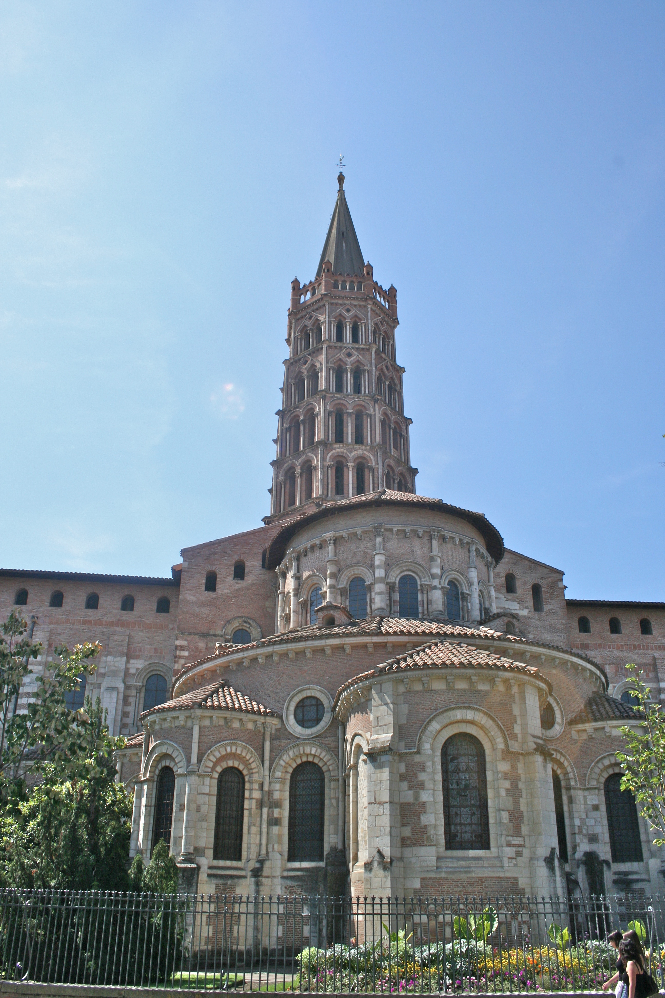 The Basilique St-Sernin, Toulouse, France.